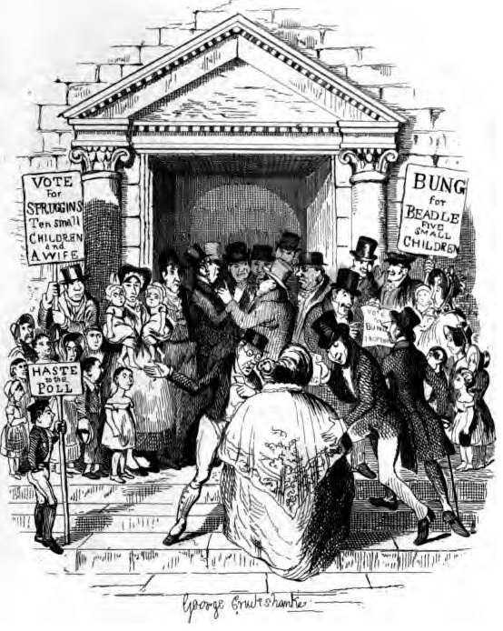 George Cruikshank, Sketches by Boz - The Election for Beadle